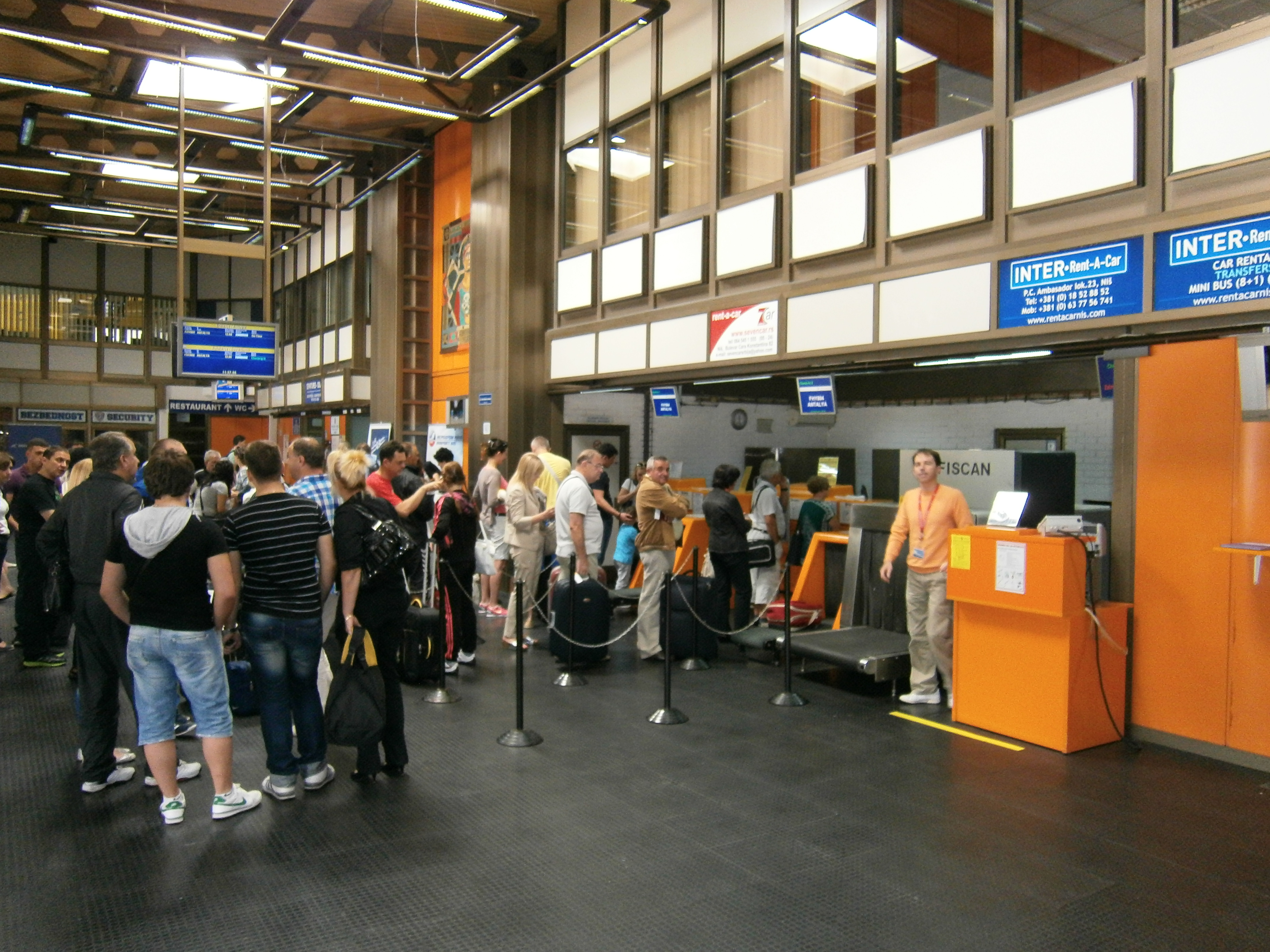 inside terminal at Nis airport.